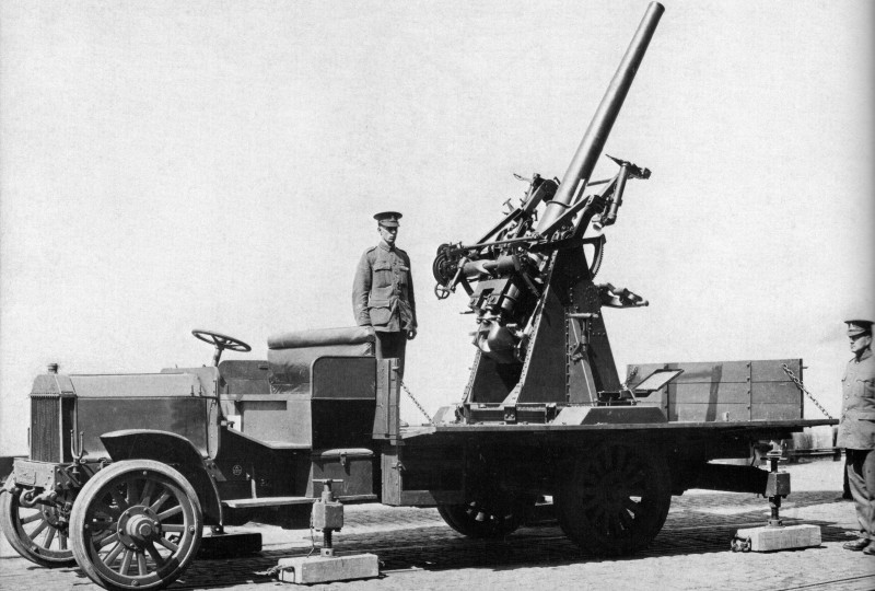 Photograph of British QF 3 inch 20 cwt anti-aircraft gun mounted on a Peerless lorry, World War I. The gun is a Mk I with vertical sliding block breech, on Mk IV mounting.